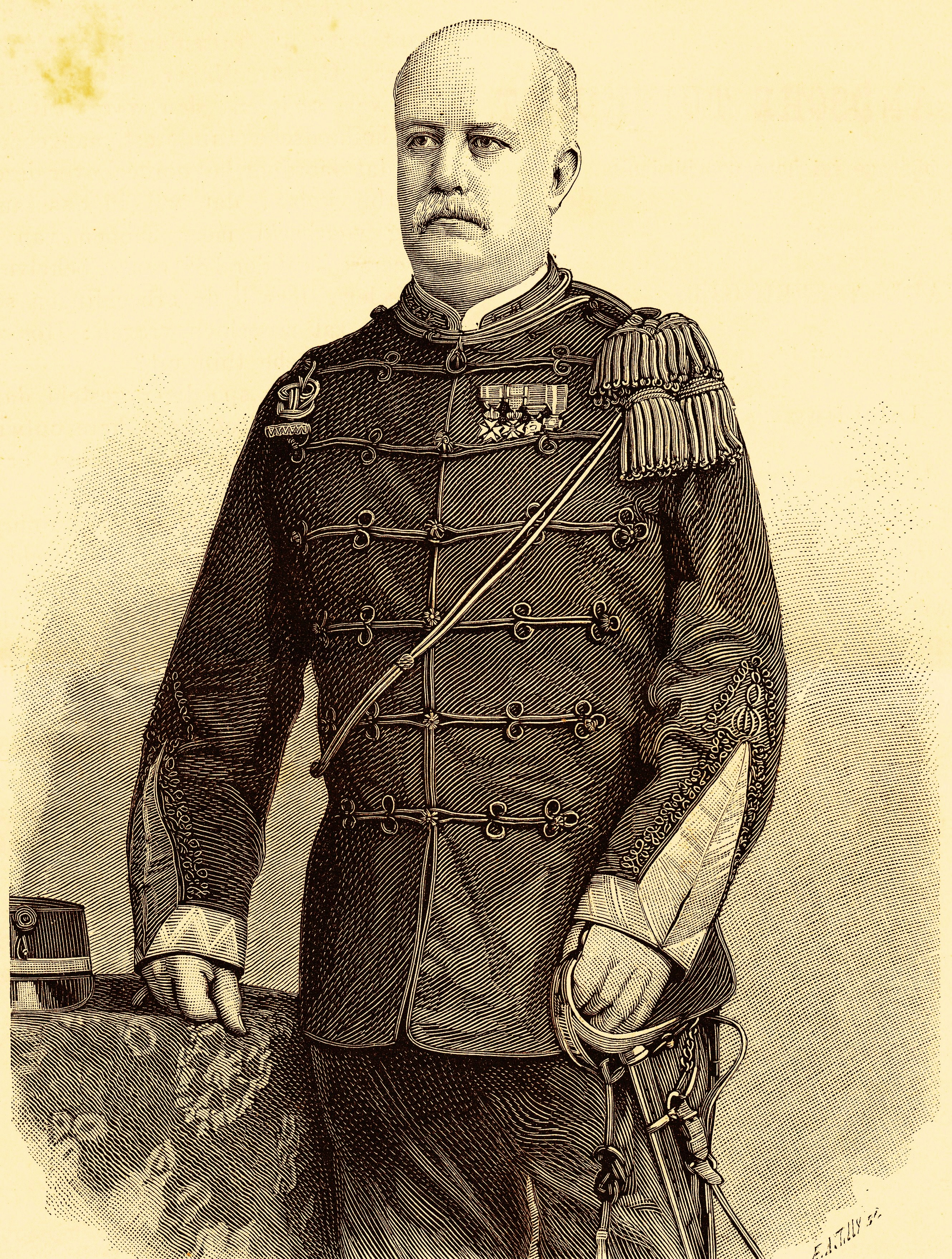 General H.K.F. van Teyb